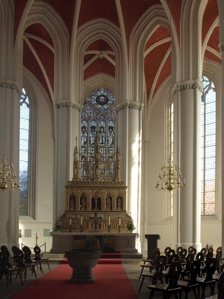 Verden(Aller), Germany, Cathedral choir, photo 2011